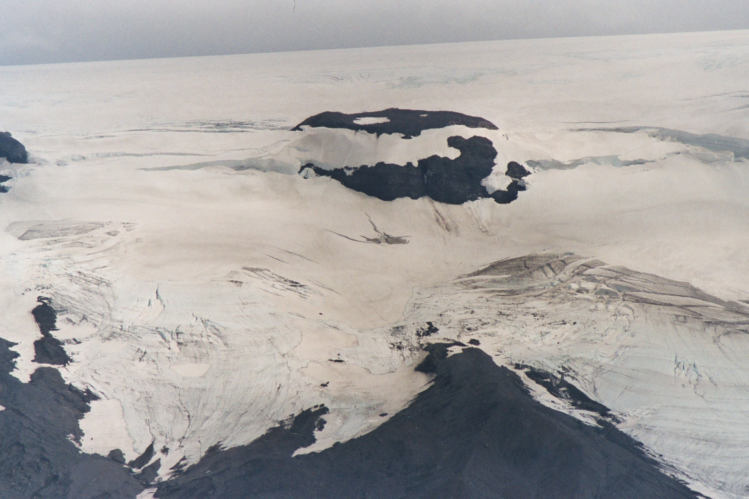 Detail of the Langjökull Author: Johann Dréo (User:Nojhan) Date: 2004, july Notes: Detail of the Langjökull glacier, in Iceland. Taken from the Kaldidalur. Size : 1536 x 1024, digitalized from an argentic film.